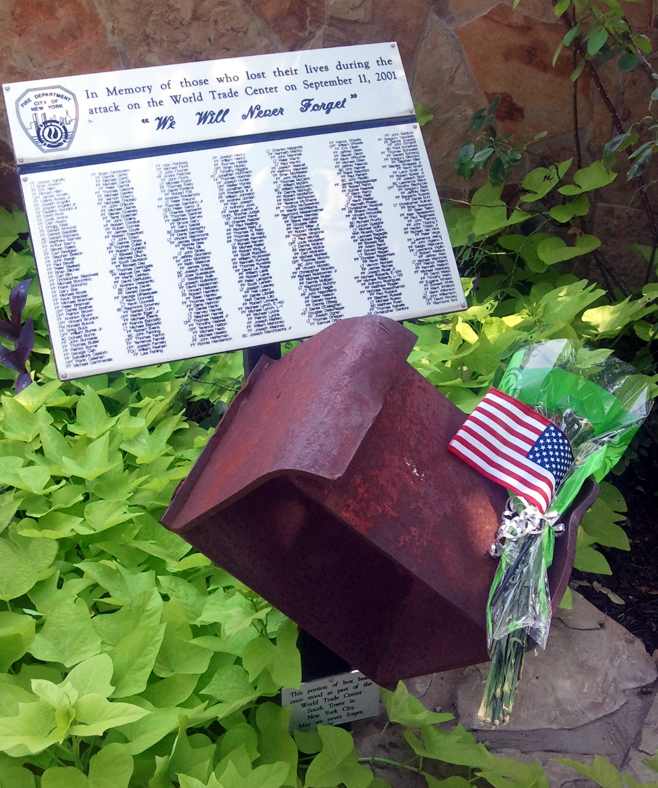 Part of the South Tower of the World Trade Center Towers, delivered to the Lewisville, Texas fire department for their fundraising efforts after the September 11, 2001 attacks.